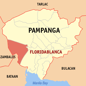 Map of Pampanga showing the location of Floridablanca